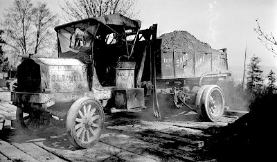 Item 12303, Department of Streets and Sewers Photographs (Record Series 2625-10), Seattle Municipal Archives. Visible writing on truck: "S.L. Dowell", "East 28" (twice), "Sand", "Lime".